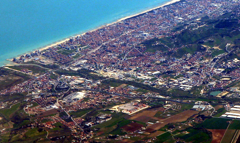 Montesilvano, Italy. Aerial view.